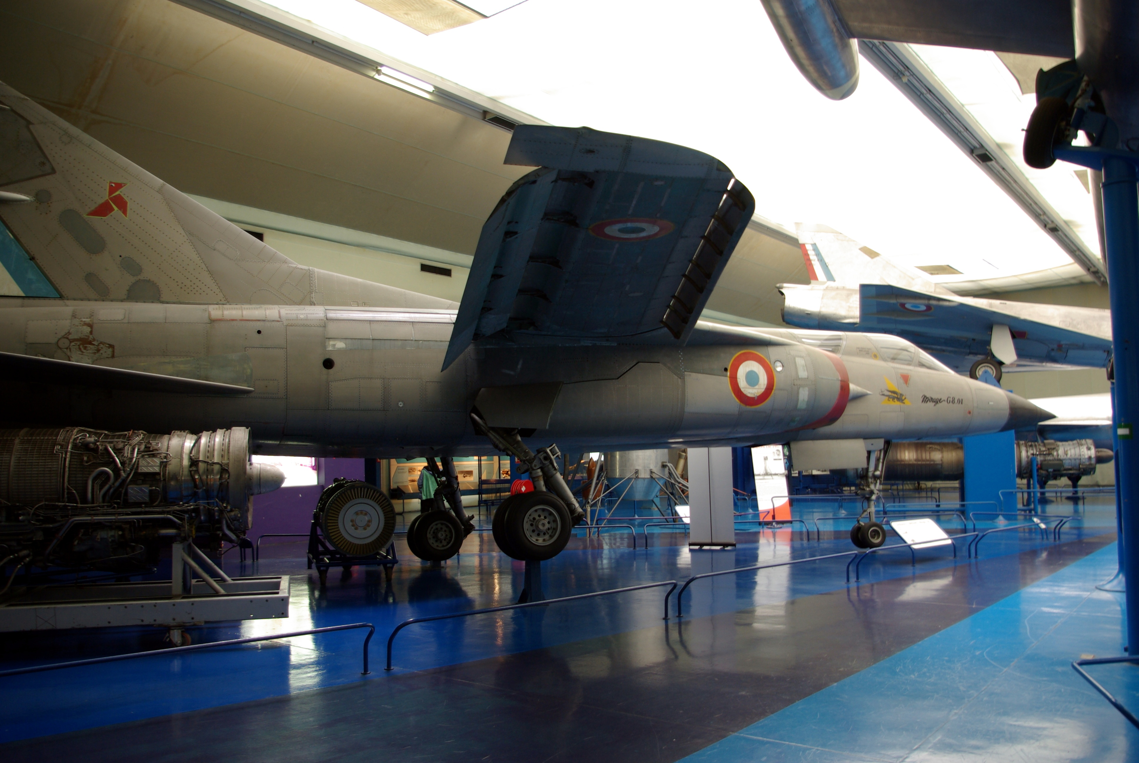 The Dassault Mirage G8 exhibited at the Air & Space Museum at Le Bourget, France.